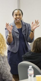 In Her Own Words: Women with TBI Share Their Story. Dr. Odette Harris, associate director of Polytrauma at the Palo Alto VA Hospital and grant recipient for the digital story telling project, talks with the women about sharing their stories of traumatic brain injury.